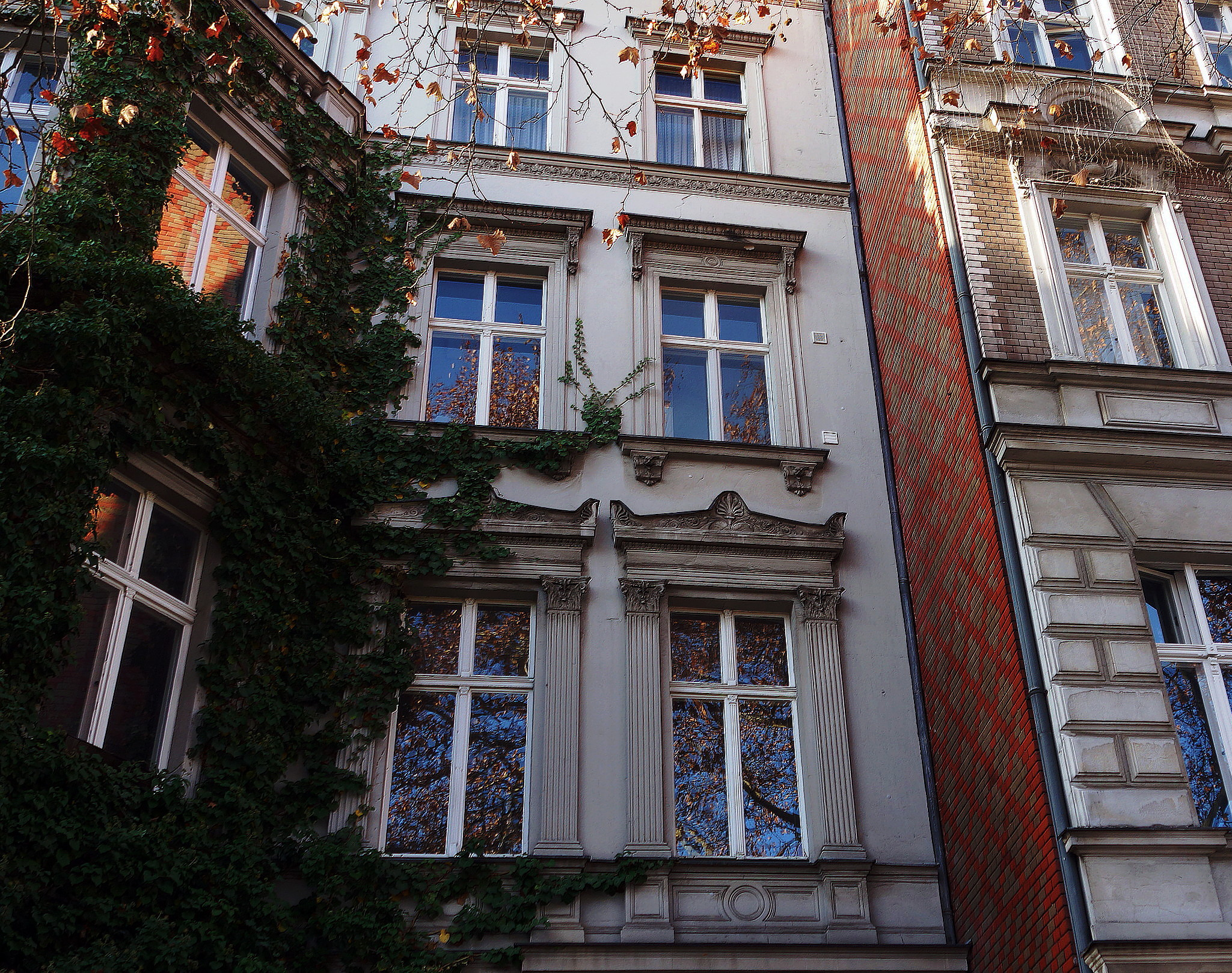 Klausenerplatz, Charlottenburg, Berlin, Germany, picture 10